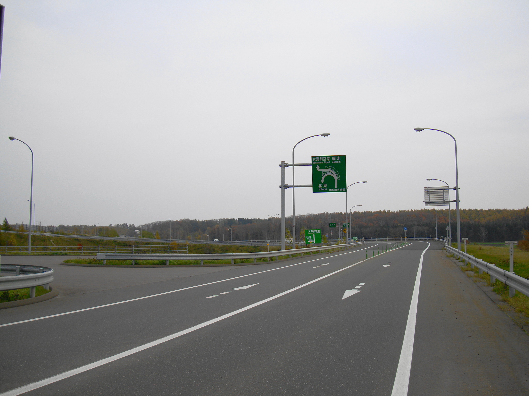 Japan National Road Route 39, Bihoro Bypass Bihoro Interchange